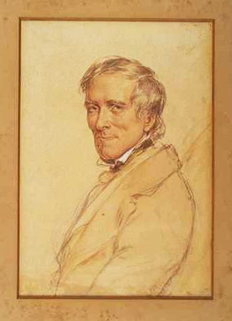 This is a digital image of a pencil and watercolour ; 24.5 x 17.1 cm. (s.m.), by Westall, R. (Robert), fl. 1845-1890. of William Westall, 1781-1850. Titled, "Portrait of William Westall A.R.A. ". Part of a collection of Westall's drawings. Notes at NLA nscription on reverse: W. Westall A.R.A., painted by his son, Robert Westall, about 1845. Inscription: Dec. 1801 K. George's Sound. Exhibited: "The encounter", Art Gallery of South Australia, February to May 2002; (ANL)R10759.